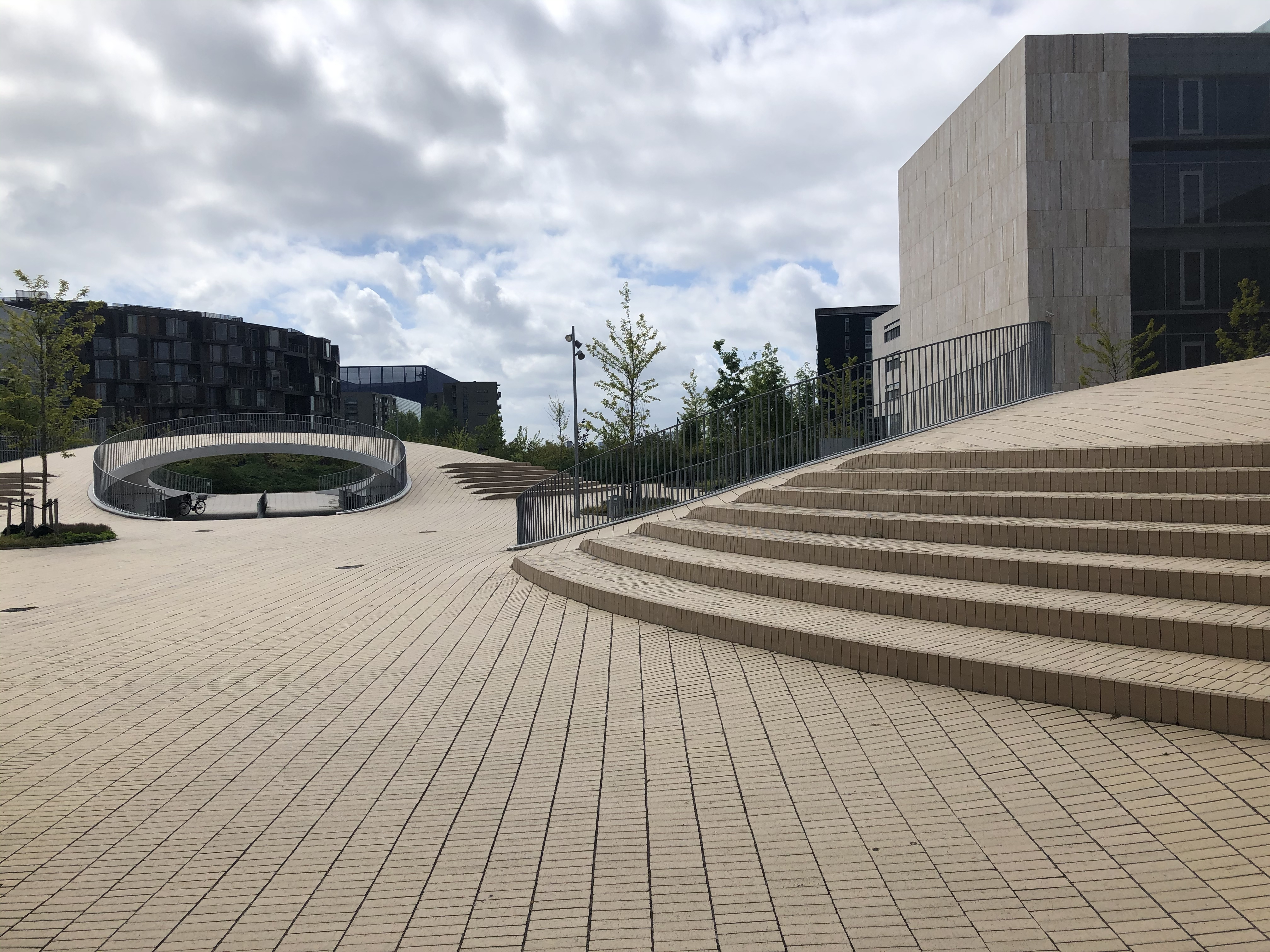 University Plaza in Copenhagen, Denmark